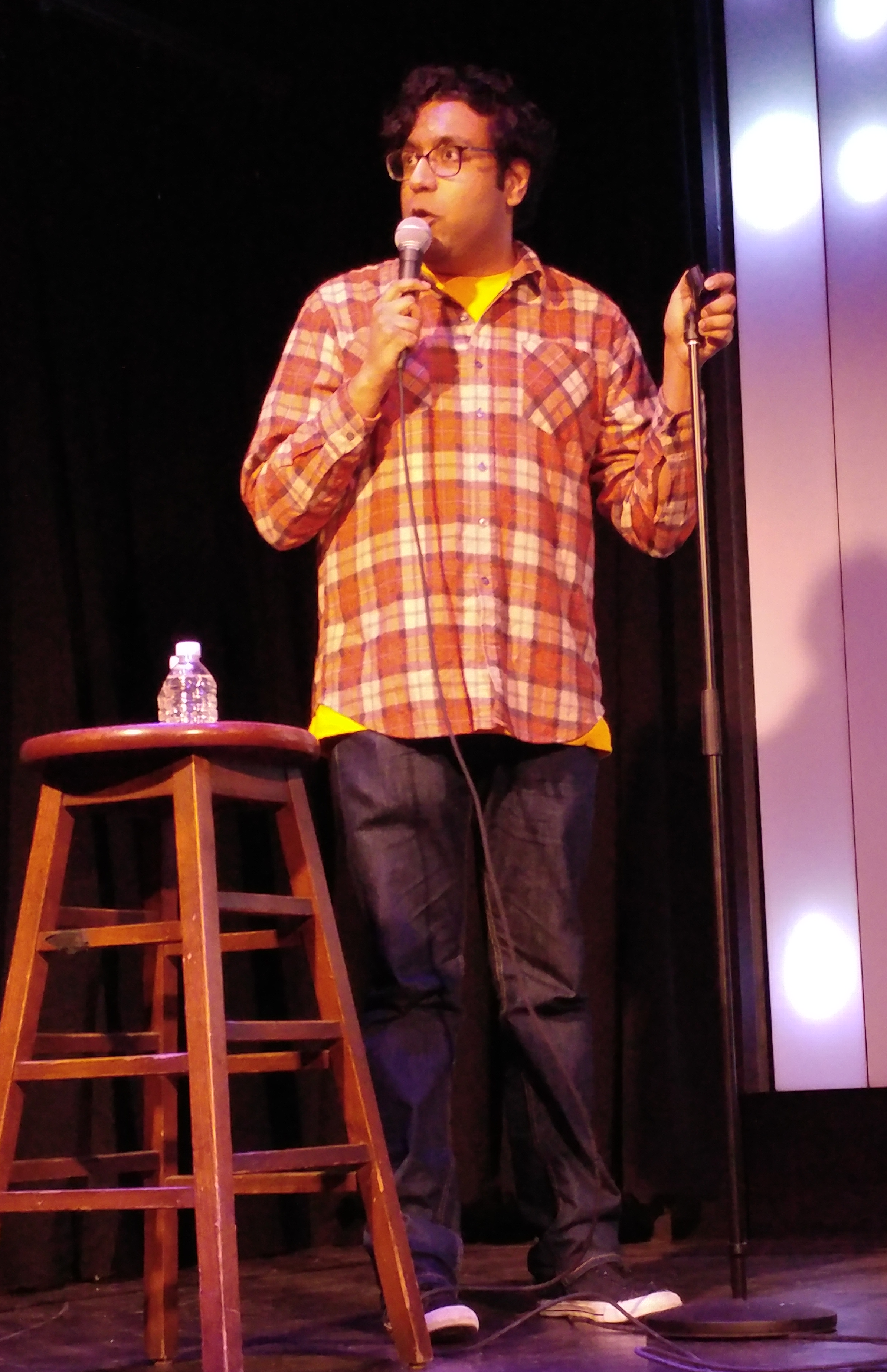 Hari Kondabolu onstage at Littlefield in Brooklyn on December 27, 2017